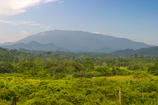 Mount Mantalingahan, an ultramafic peak of 2085 m, photographed from the barangay of Ransang, Rizal municipality, Philippines. The summit ridge is two to three days distant on foot, and one and a half days on the downward return journey (Alastair Robinson, July 2007).